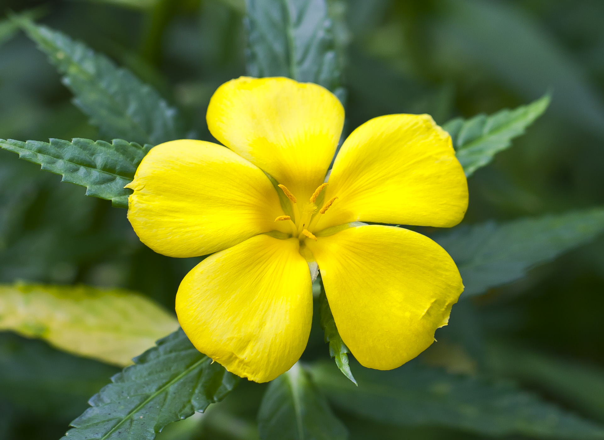 Turnera ulmifolia, Tallinn Botanic Garden, Estonia